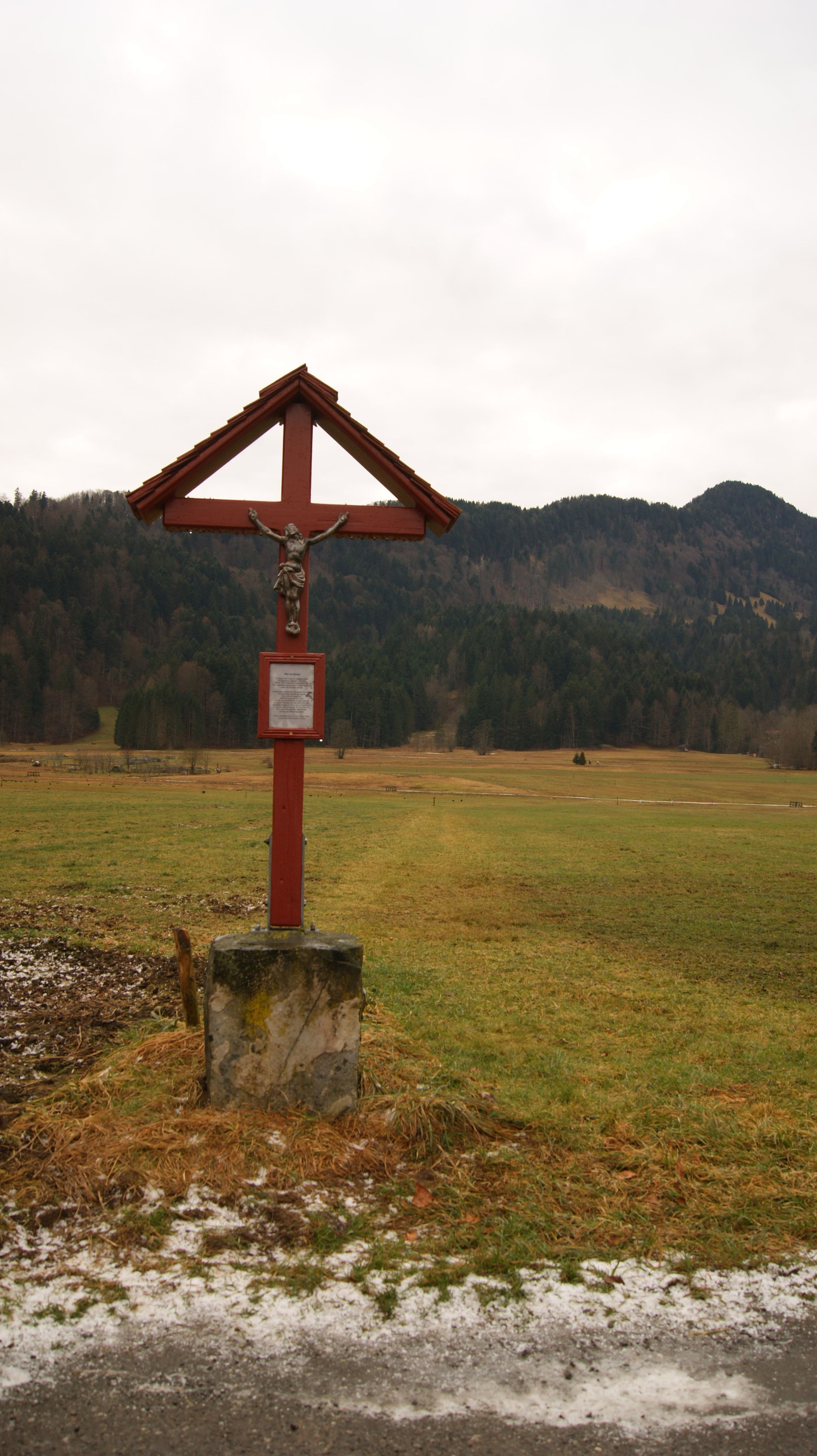 The "Blutkreuz" (meaning: Blood-cross, 678 m asl) is located in the Bizau, Vorarlberg, Austria about 500m southwest of the Chapel "Bildbuehl" in the sub-plot "Rotes Kruez".